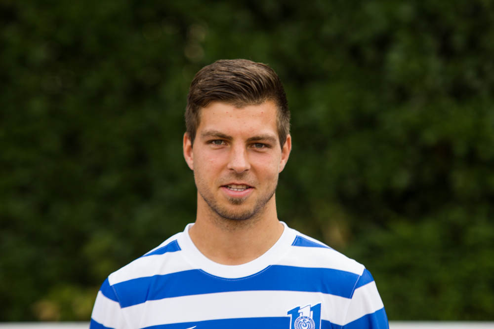 German football player Kevin Wolze, MSV Duisburg